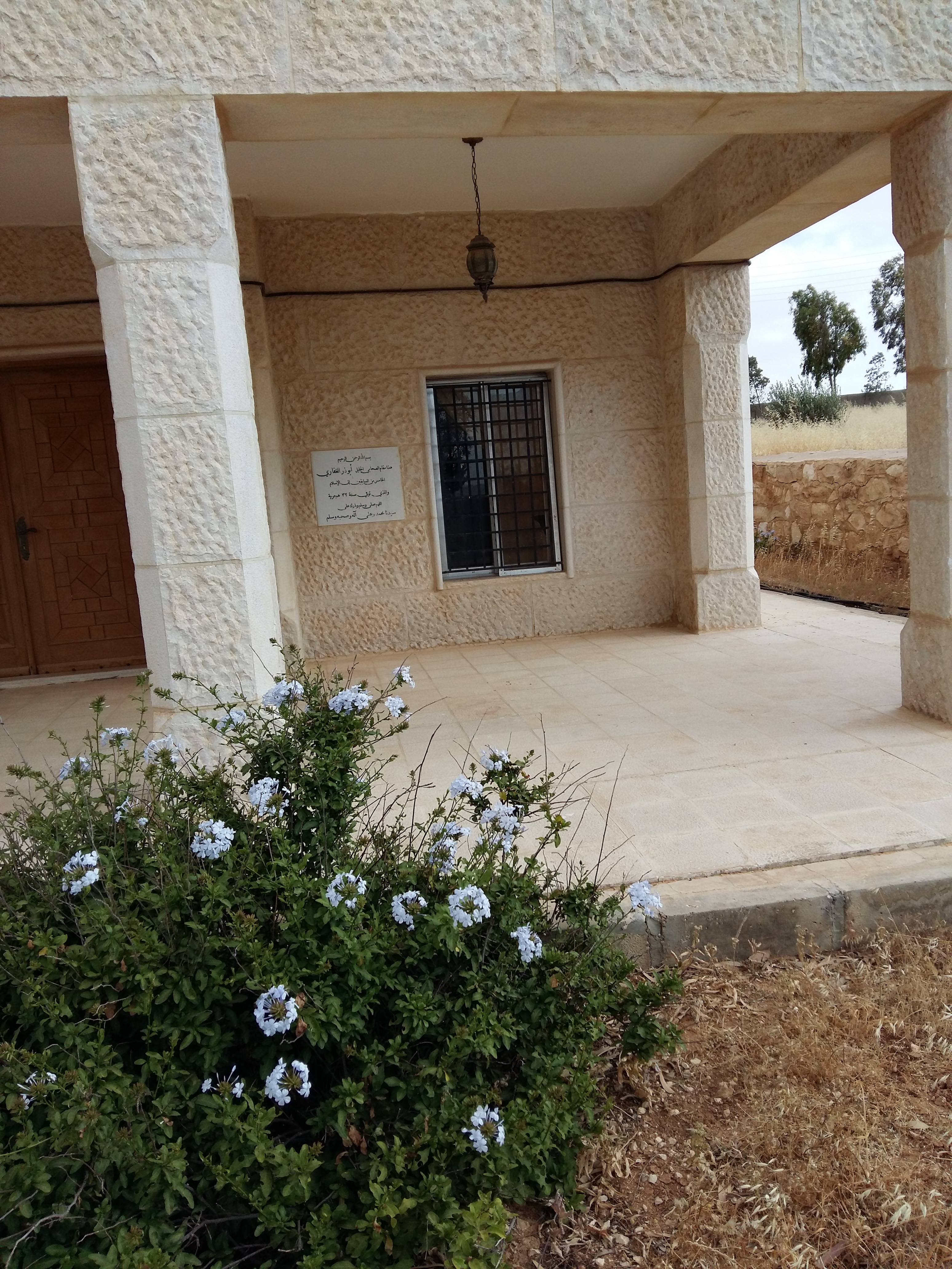 مقام الصحابي أبي ذر الغفاري-المسجد